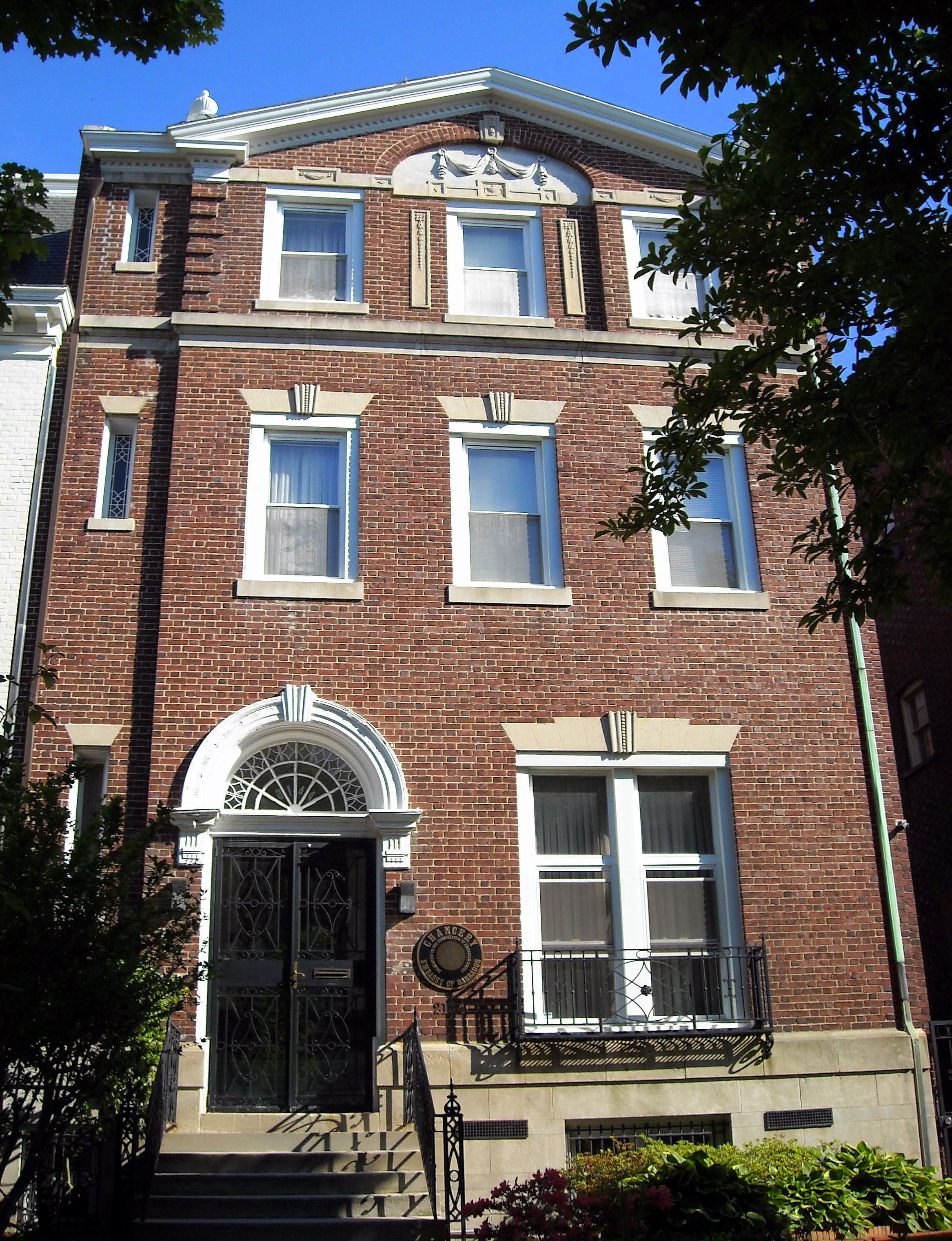 The Embassy of Barbados at 2144 Wyoming Avenue, NW in the Kalorama neighborhood of Washington, D.C.